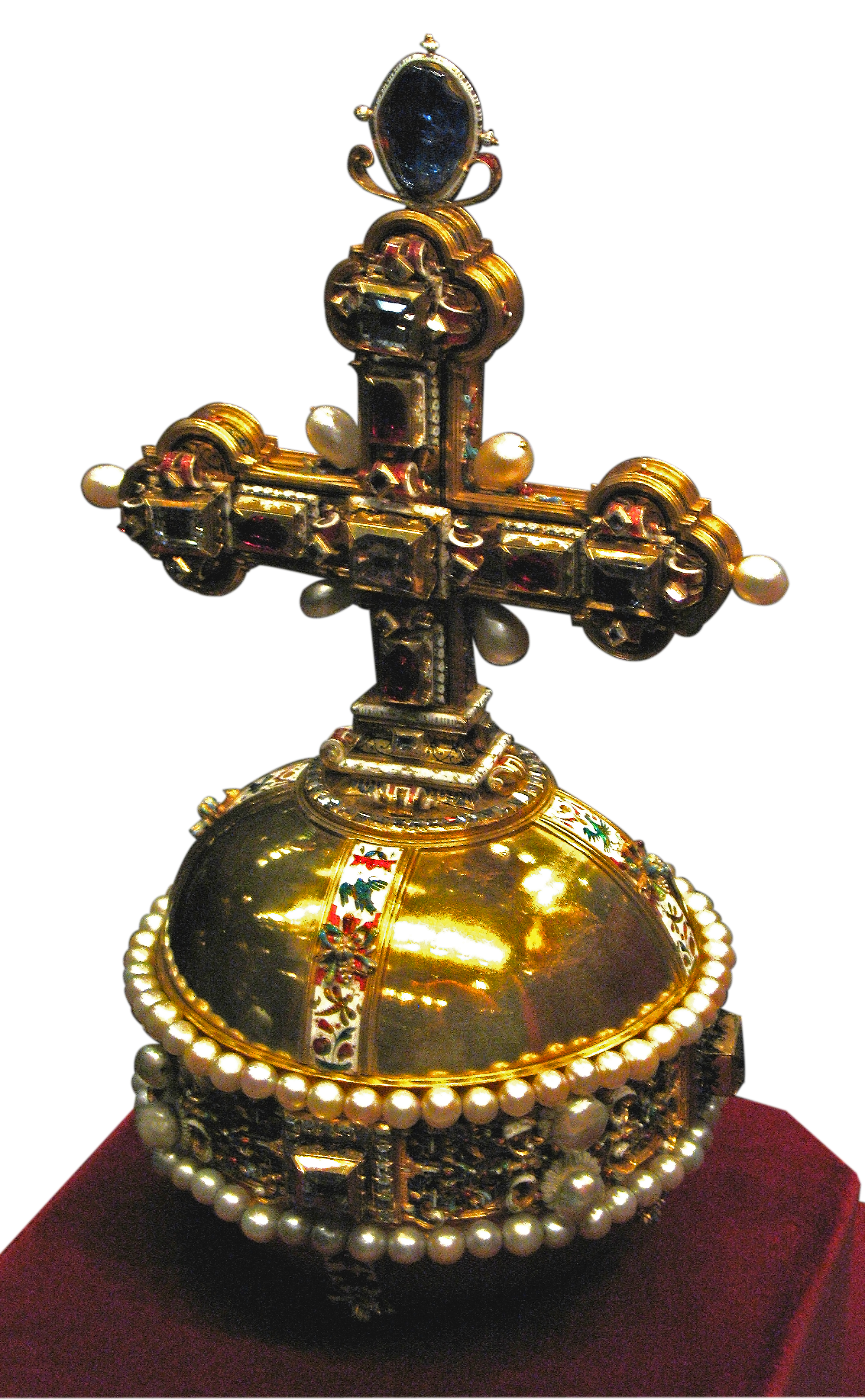 Globus Cruciger, Imperial Treasury, Vienna, Austria